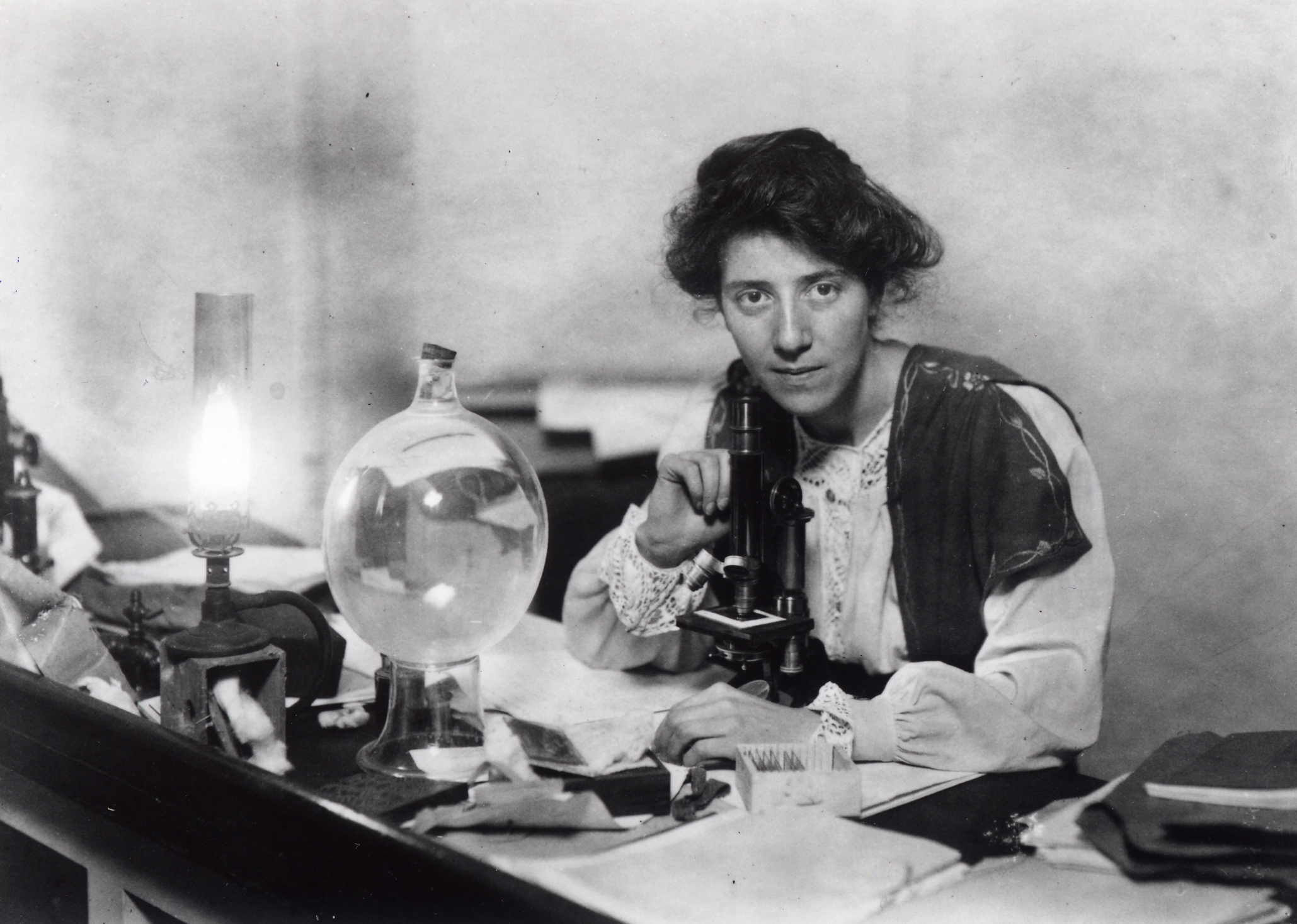 Marie Stopes